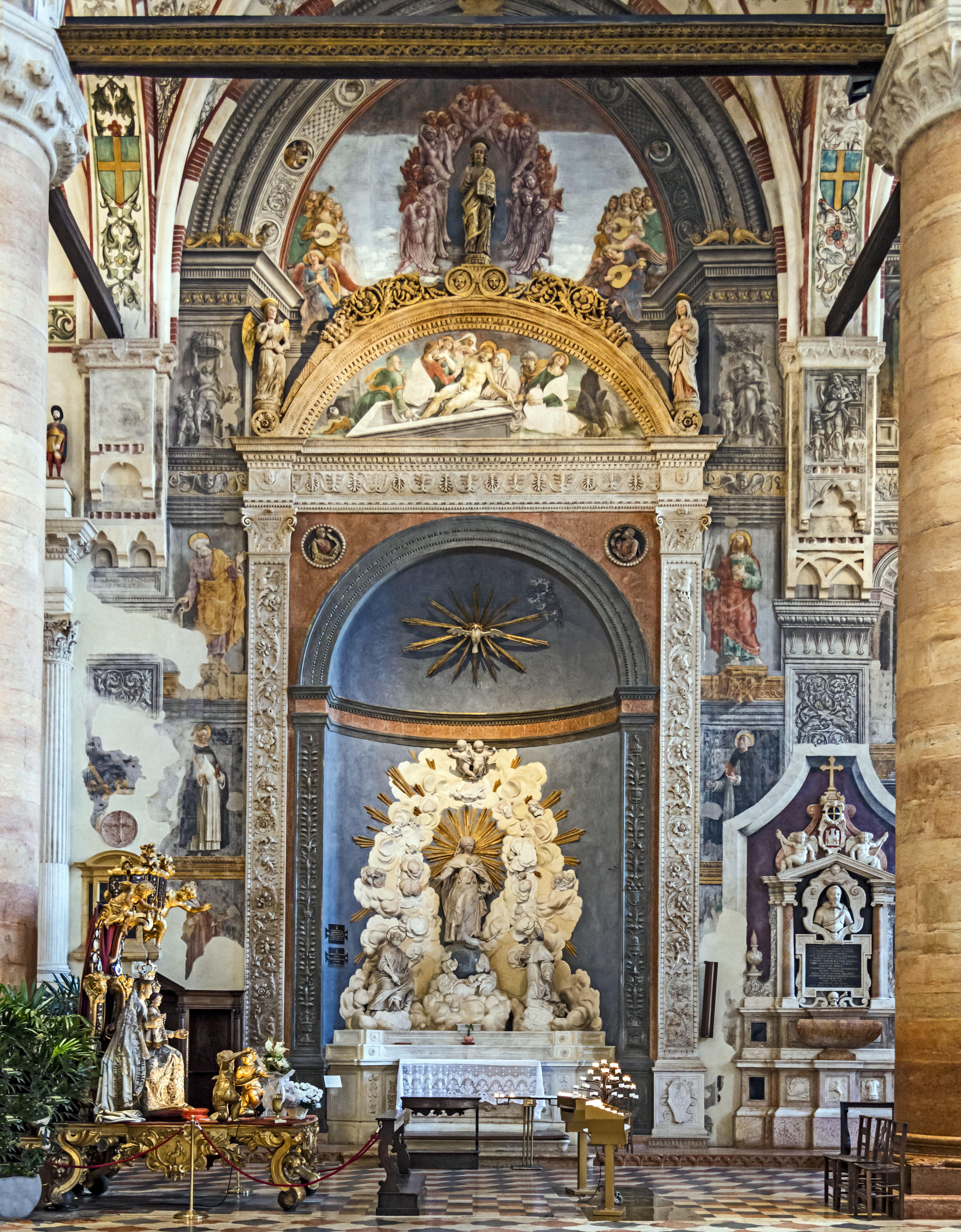 Basilica Santa Anastasia. Bevilacqua-Lazise-Altar.The sculpture of the altarpiece is due to Orazio Marinali (1643-1720), it represents the Assumption of the Virgin. The marble sculptures are due to Pietro da Porlezza. The frescoes, earlier, by Liberale da Verona.